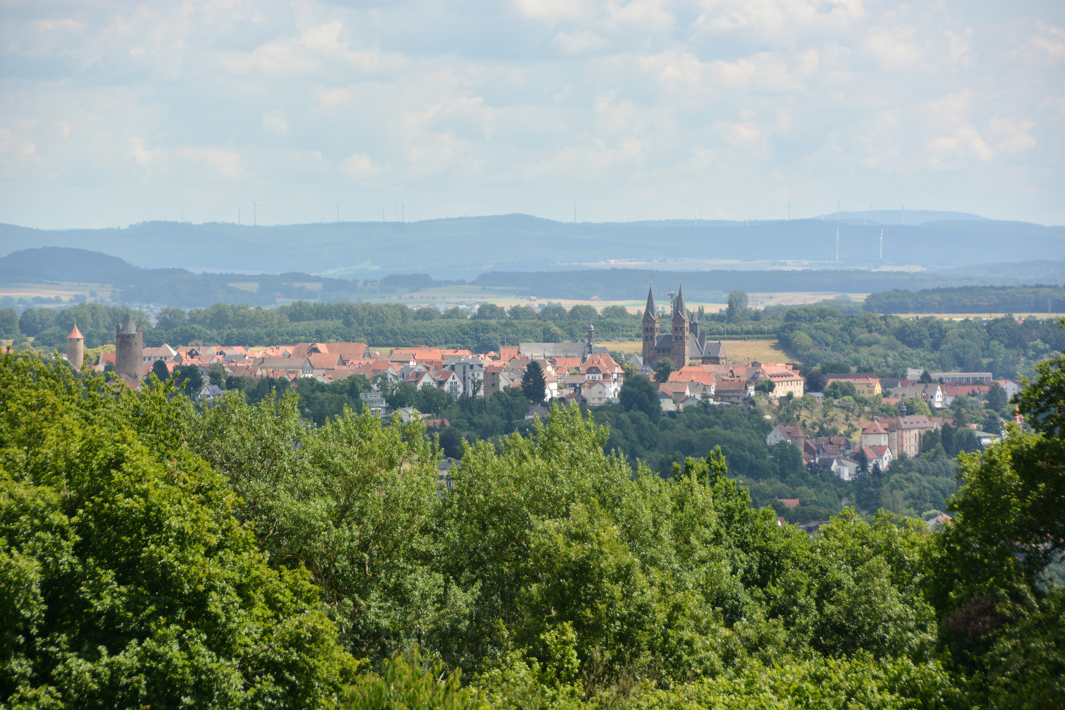 Historic district of Fritzlar, Hesse, Germany, view from Büraberg